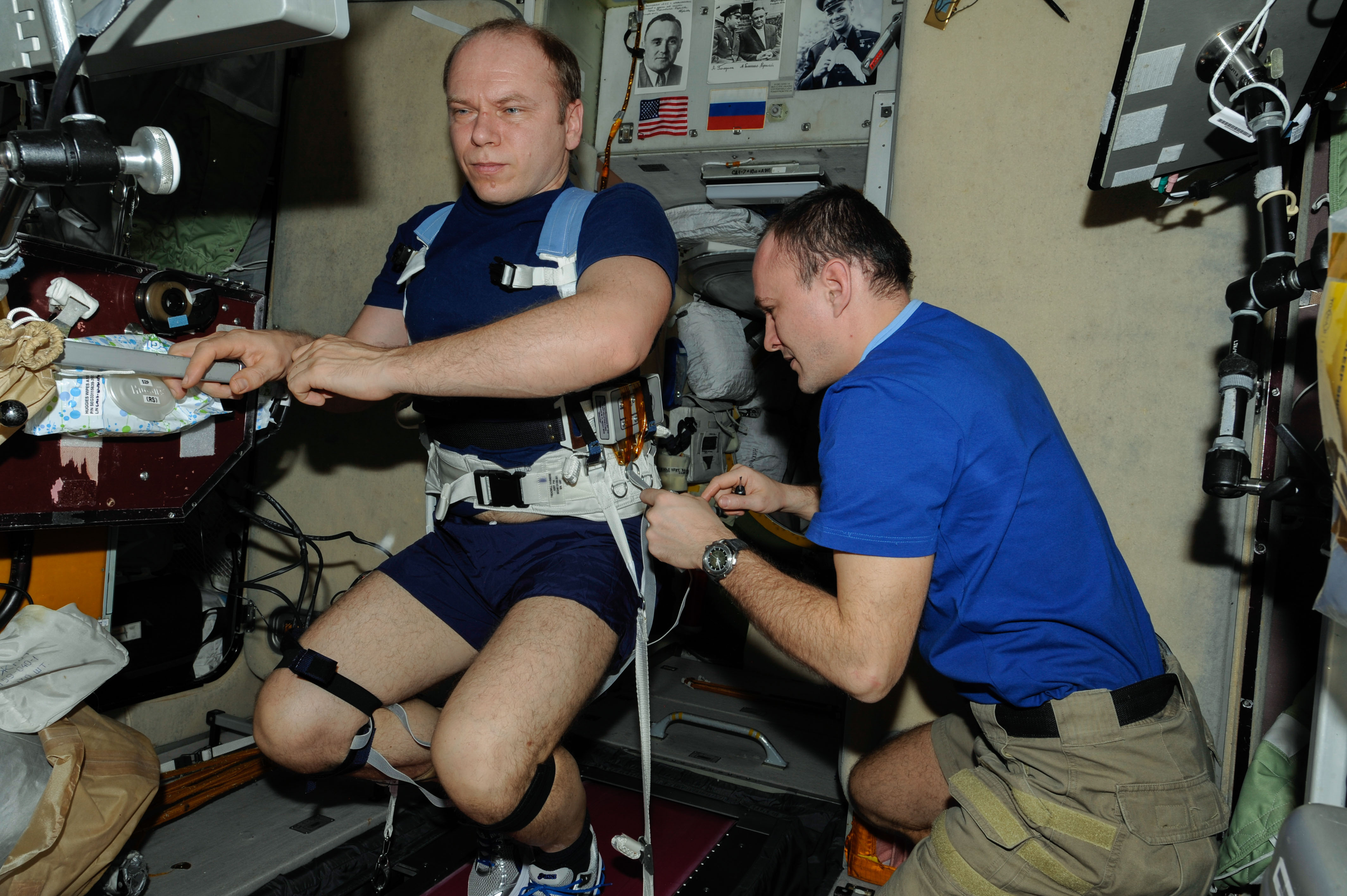 Russian cosmonaut Oleg Kotov, Expedition 38 commander, prepares to perform a session with the Motocard experiment, using the Treadmill Vibration Isolation System (TVIS) in the International Space Station's Zvezda Service Module. Motocard studies locomotion in crew members so specialists can design better training systems for future station residents. Russian cosmonaut Sergey Ryazanskiy, flight engineer, assists Kotov.